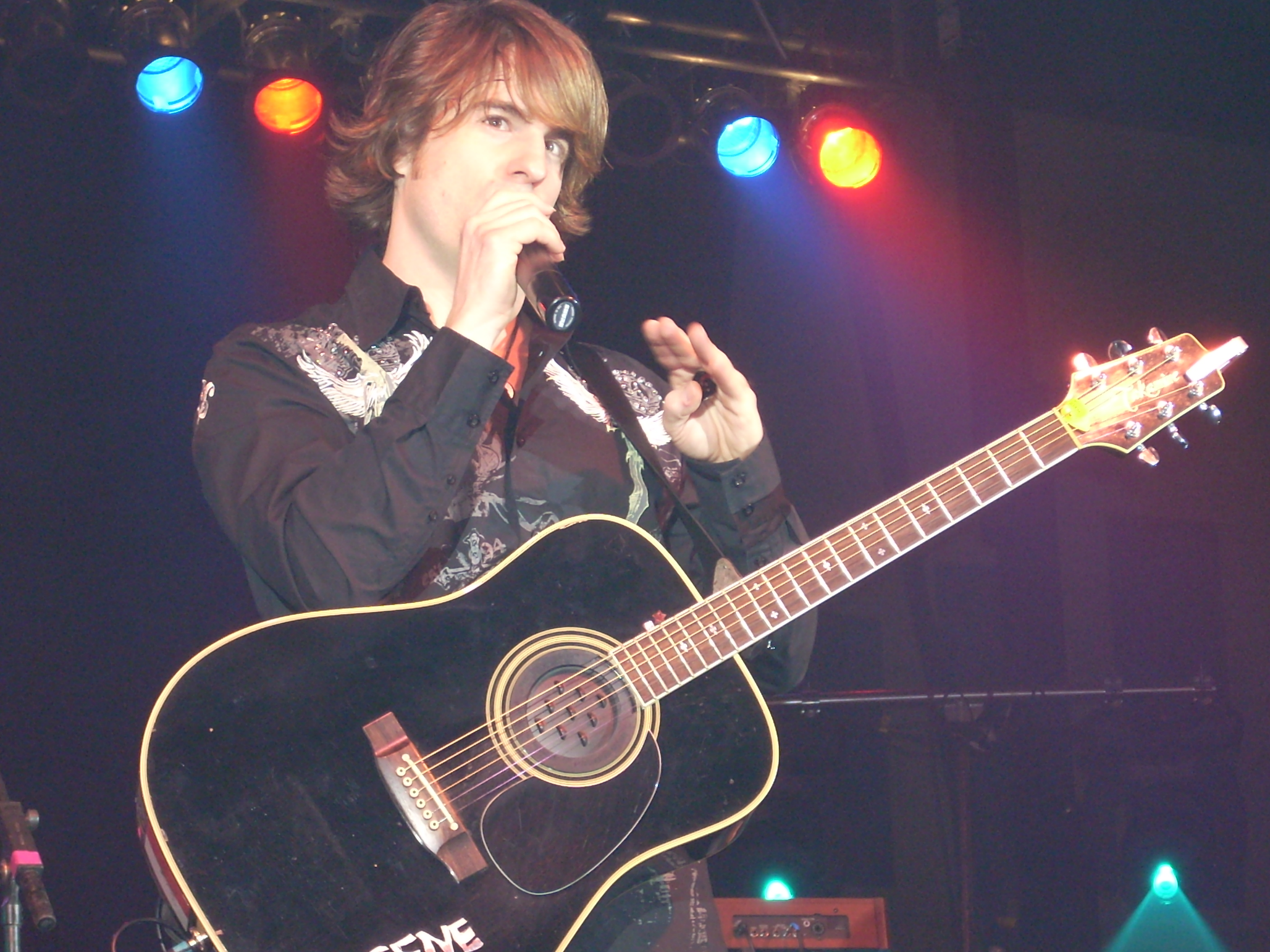 Jimmy Wayne performing in Madison on October 25, 2008.